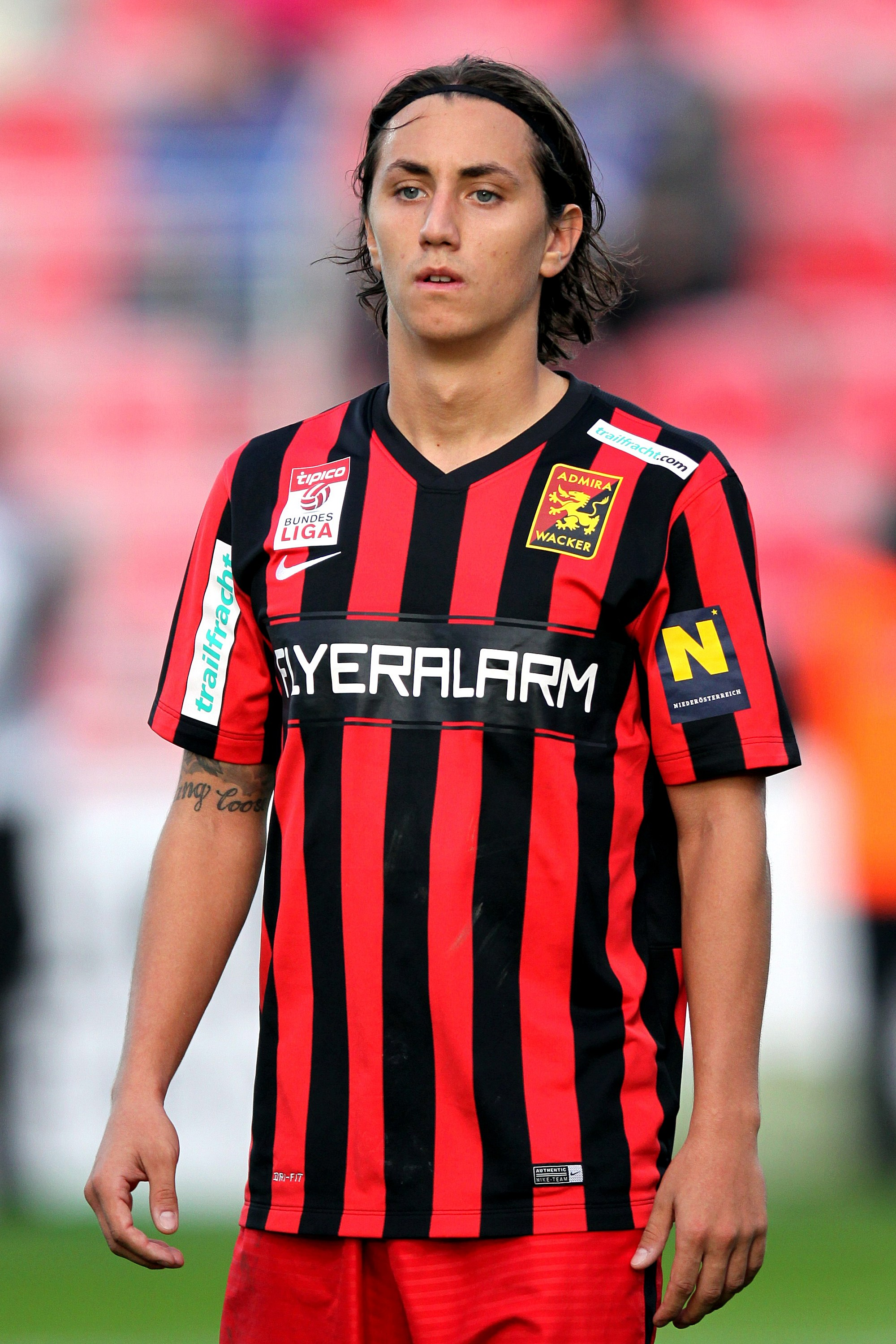 Match of the Austrian Football Bundesliga – FC Admira Wacker Mödling (red shirts) vs. SK Sturm Graz (white shirts) 0-1 (0-0) on 2015-09-27 in Bundesstadion Sudstadt – The photo shows Maximilian Sax